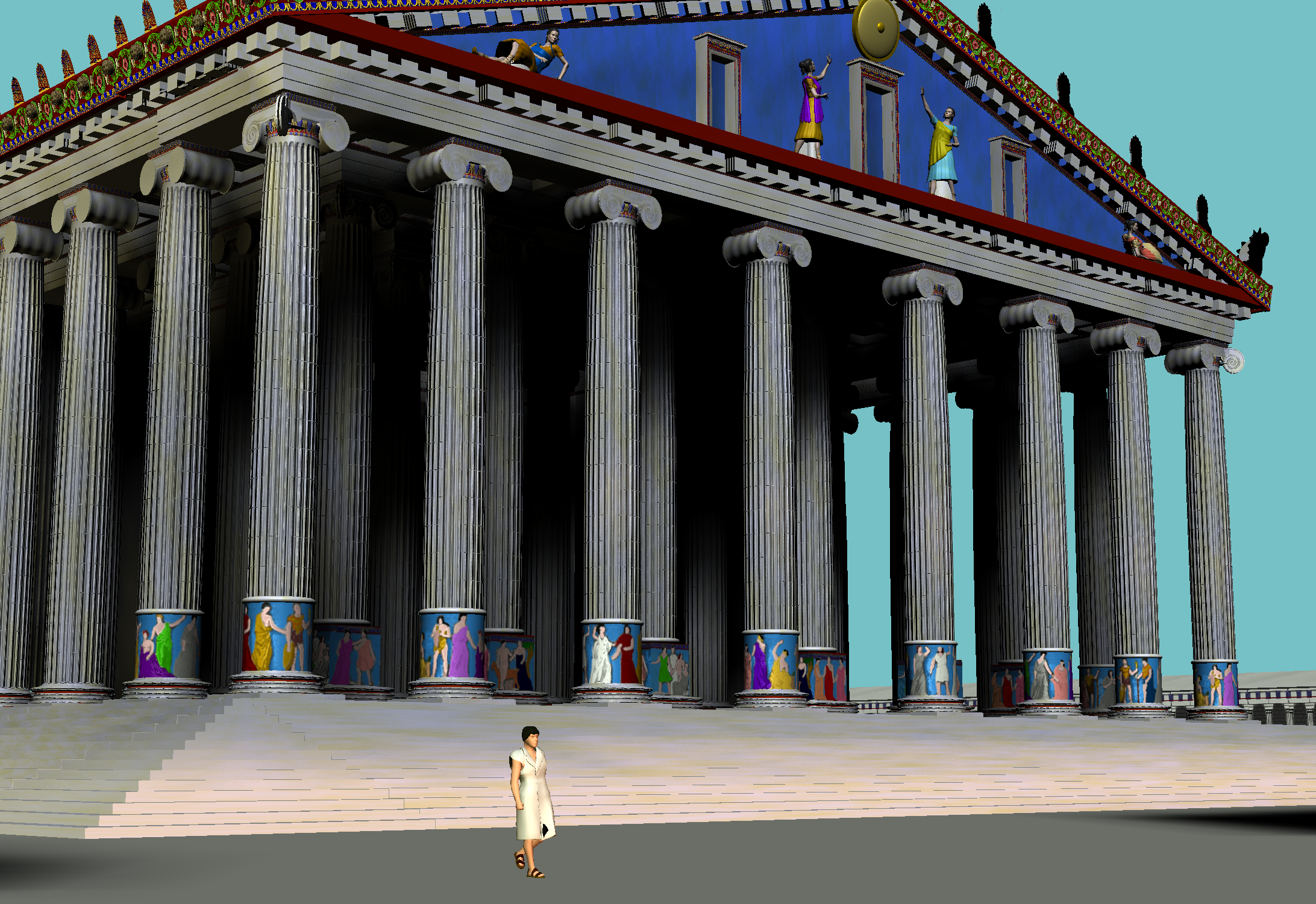 Reconstruction done in Poser software of the west end of the temple of Artemis.